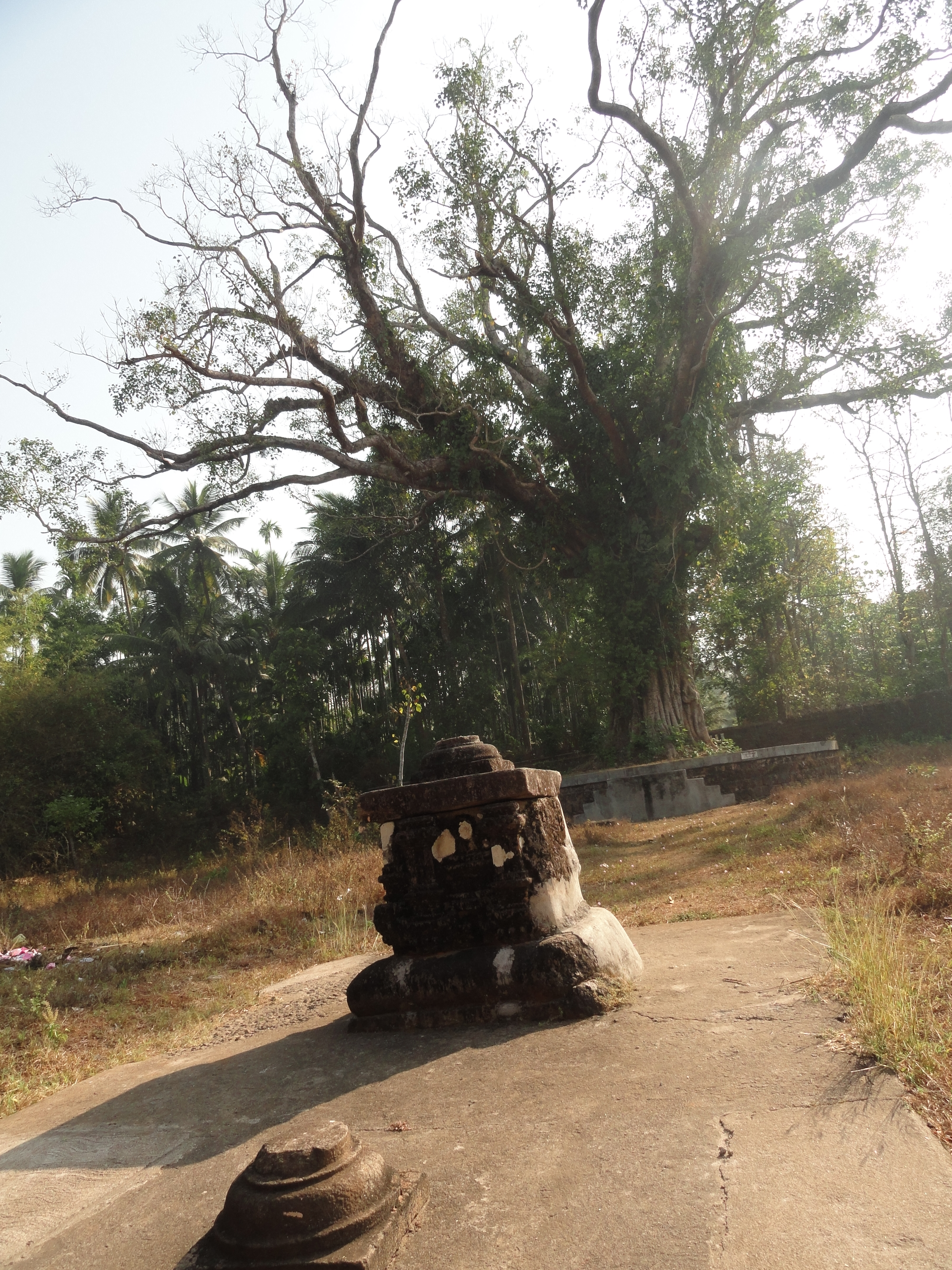 Panniyur Sri Varahamoorthy Temple